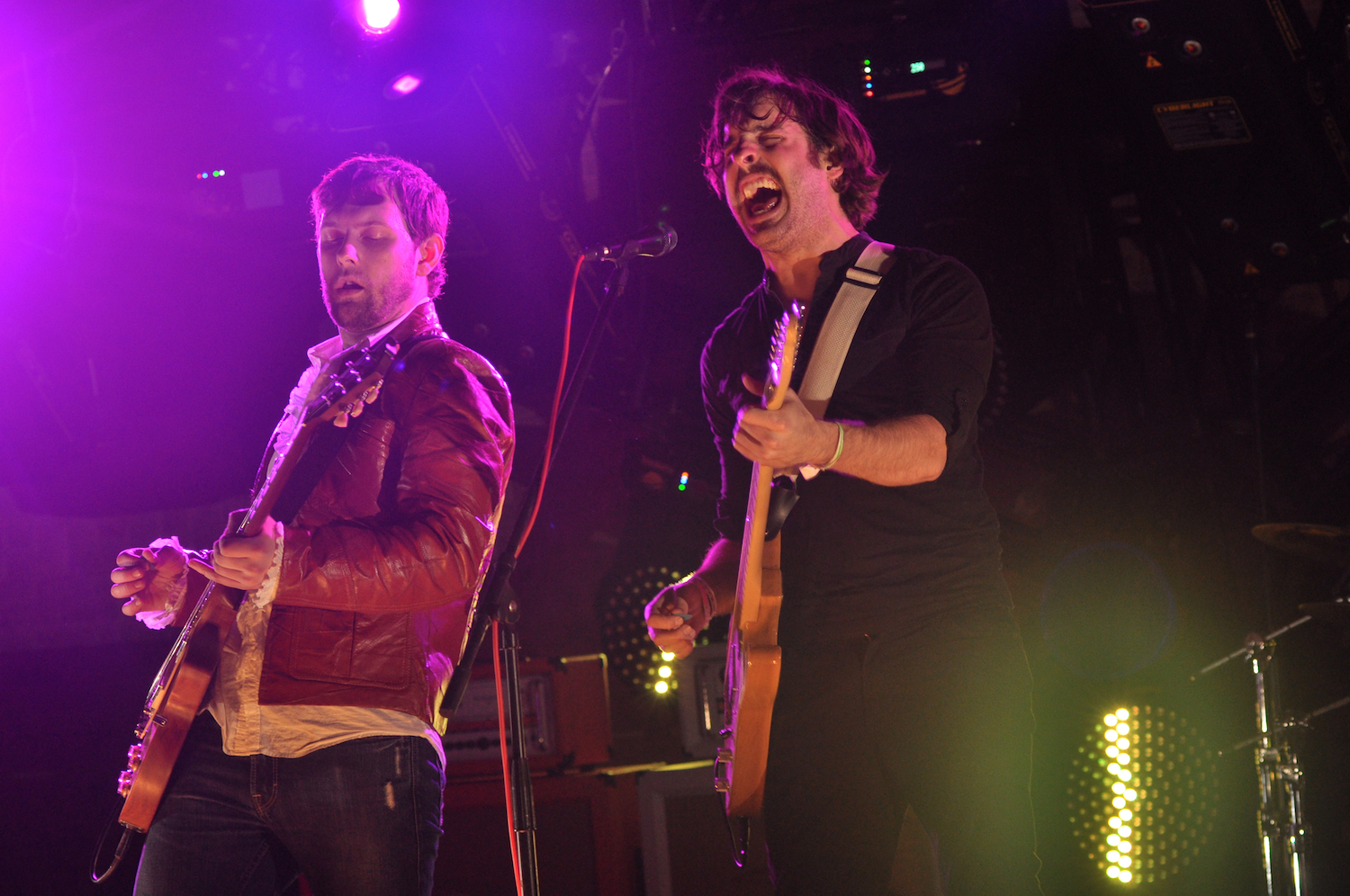 theWANDAS (Battey & McEachern pictured) at The South By Southwest Music Festival in Austin, TX 2010. Purevolume Showcase.